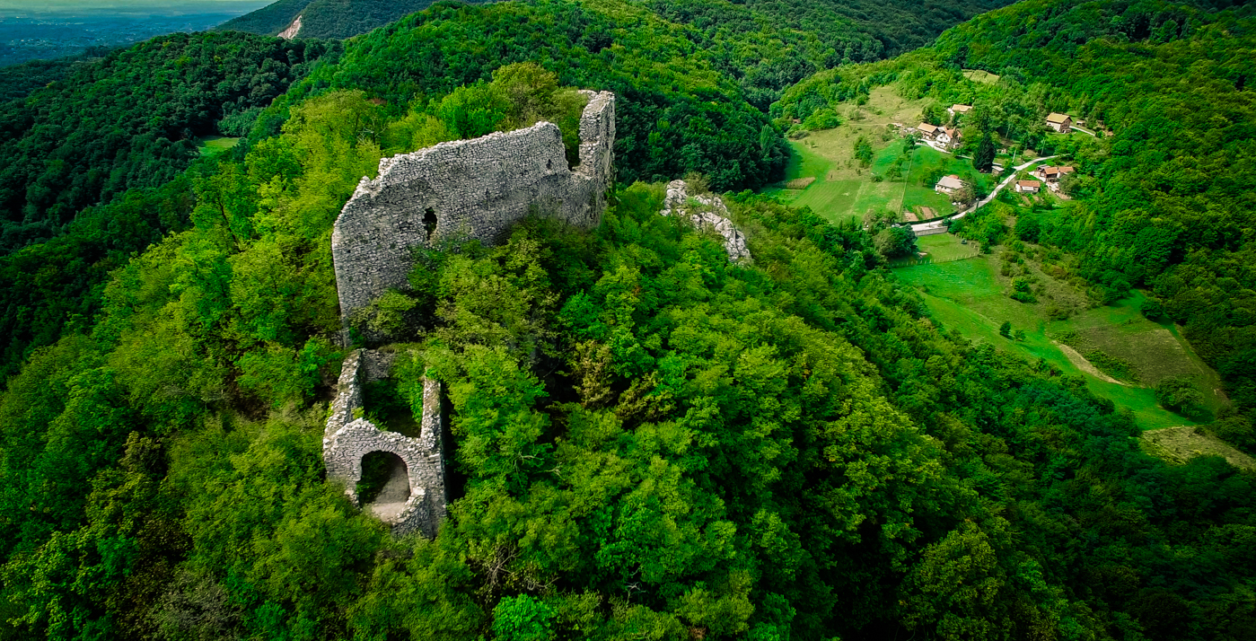 Gentle area around Okić covers the farthest south-eastern part of the Samoborsko gorje, about 20 km south-west of Zagreb, on the half way between Samobor and Jastrebarsko. The most attractive point of the area is Okić with Old Town on its rocks. It is one of the oldest medieval feudal towns of distinctive preserved Romanic architecture on exceptional position and is regarded as unique in the continental part of Croatia. All neighboring places carry its name – Novo Selo Okićko, Sv. Martin pod Okićem as well as famous Okić cherries. Woodlands are in the west and vineyards and orchards cover the southern slopes. In its lower areas where hilly terrain merges with plain there are more and more meadows and fields. Flora and fauna are considered as a part of the Samoborsko gorje. CP from Interesting ethno-house under Okić is worth your visit. Hiking and rock-climbing mountaineering on rocks around Old Town begins at mountaineers' lodge Maks Plotnikov.